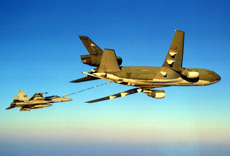 A United States Marine Corps F/A-18 Hornet being refueled by a drogue from a U.S. Air Force KC-10 Extender. 749 x 508 px